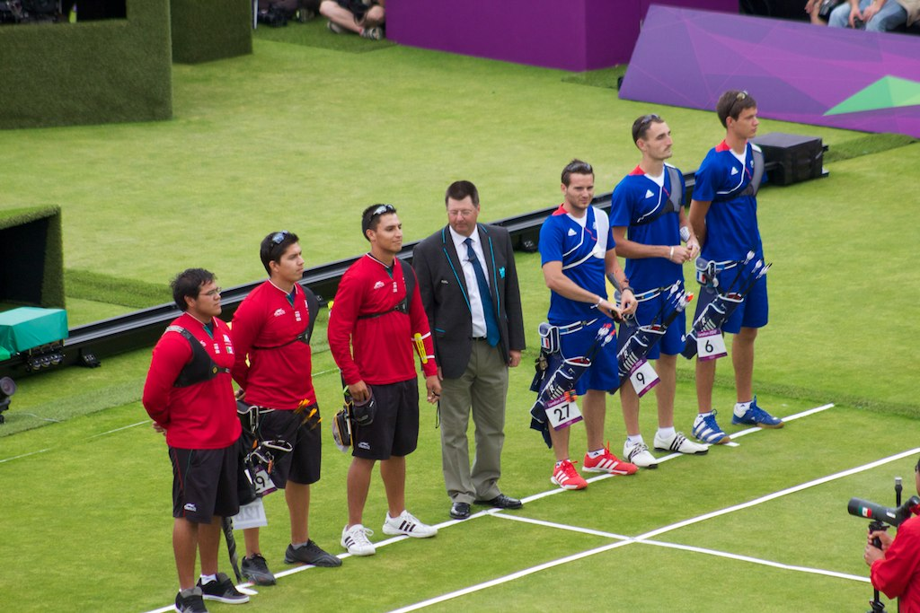 Mexico v France - men's archery team quarterfinal Summer Olympics 2012. L-R: Luis Alvarez Murillo, Juan René Serrano, Eduardo Vélez, Thomas Faucheron, Romain Girouille, Gaël Prevost